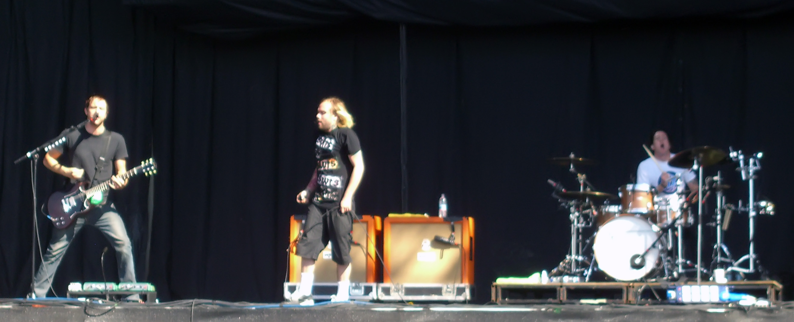 From left to right: Quinn Allman, Bert McCracken, Dan Whitesides. Playing at Reading Festival, 2007 on the main stage.